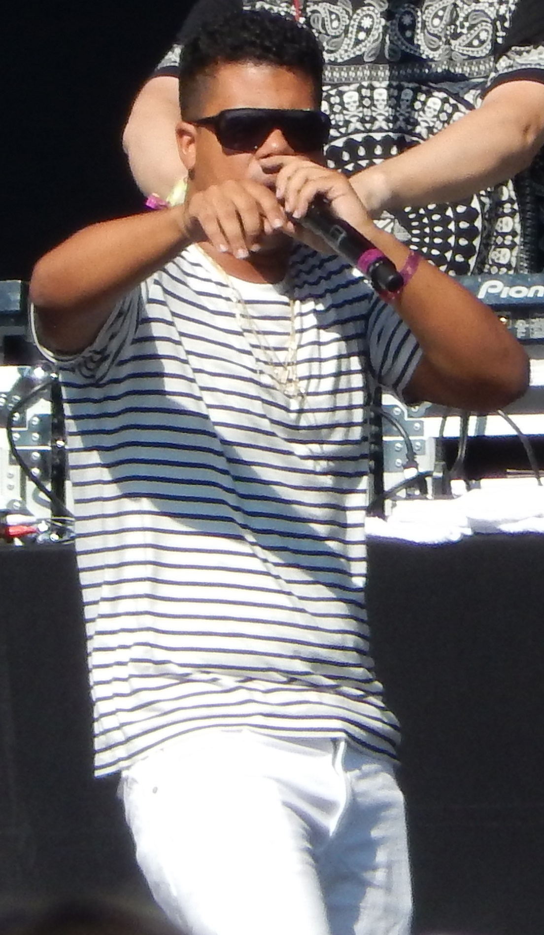 ILoveMakonnen performing at the Pitchfork Music Festival in Chicago on July 17, 2015.